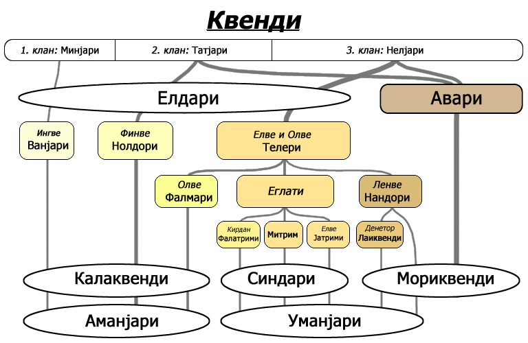 The sundering of Elves